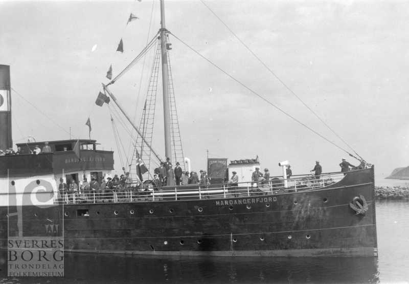 DS Hardangerfjord in Trondheim. 1924.